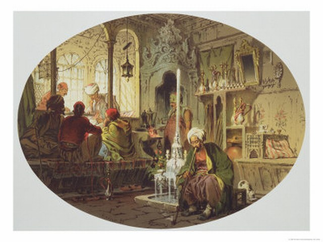 Romania, Balkans, Turkey Authority control : Q3675462 VIAF: 2741854 ISNI: 0000 0000 8082 574X ULAN: 500119781 LCCN: n85197102 GND: 131791583 WorldCat Ottoman Coffee House 1862